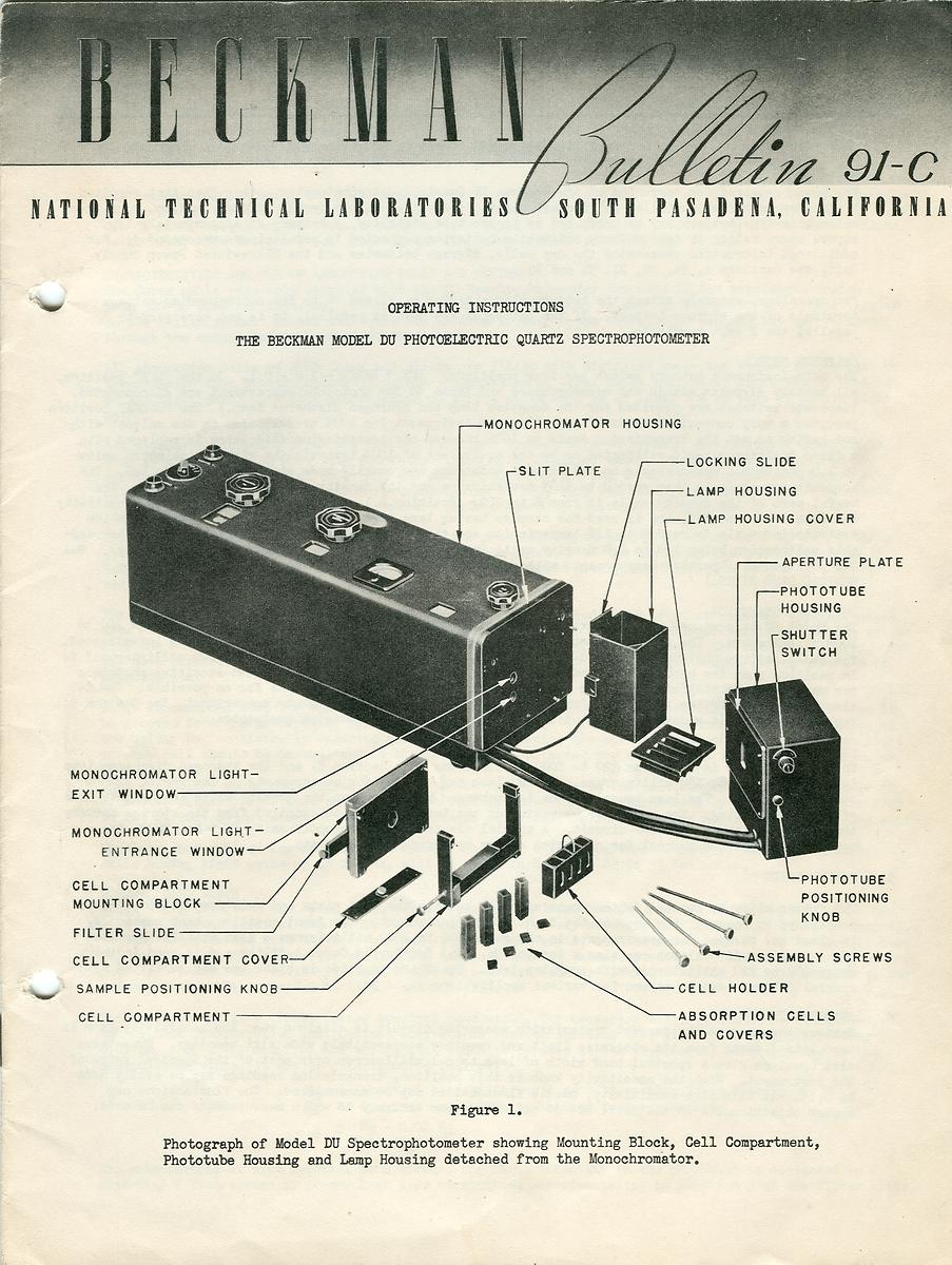 Diagram of the Model DU Spectrophotometer, showing Mounting Block, Cell Compartment, Phototube Housing and Lamp Housing detached from the Monochromator.